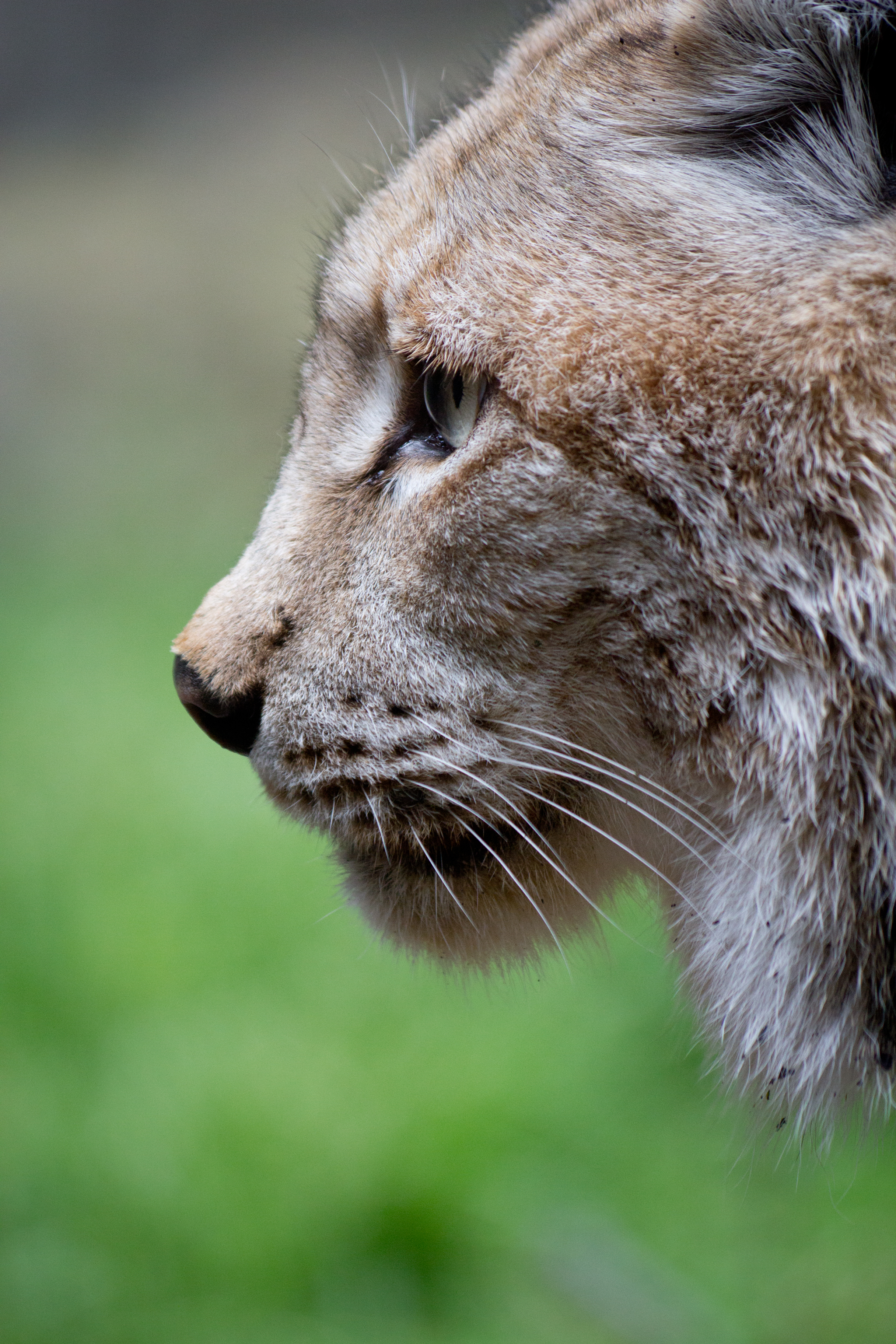 Eurasian lynx (Lynx lynx) in the Zoo of Madrid, Spain.